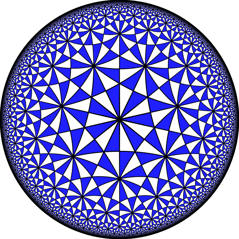 Hyperbolic Order-3 bisected heptagonal tiling